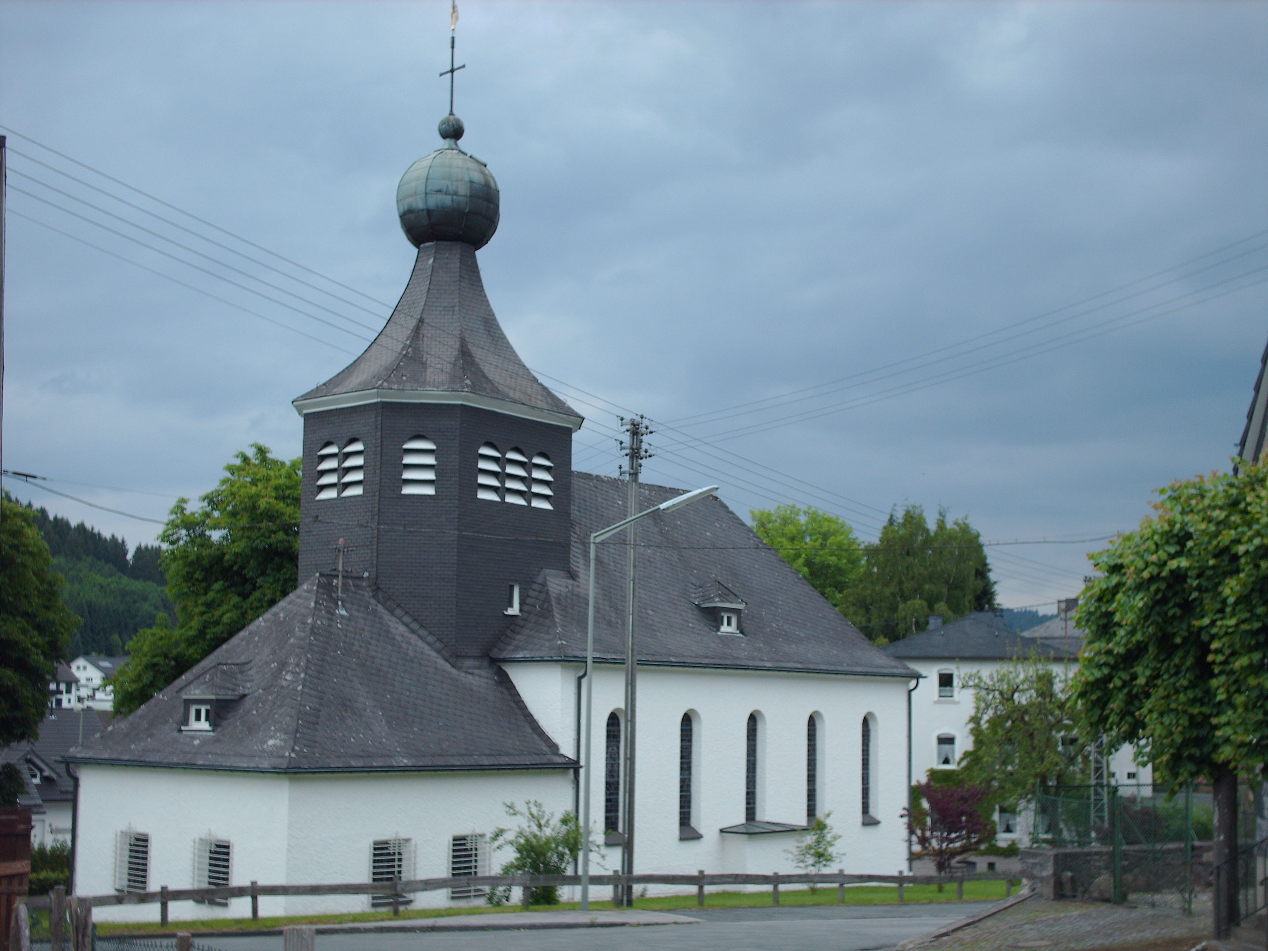 St. John’s Chapel Flape, Kirchhundem, Germany check usage